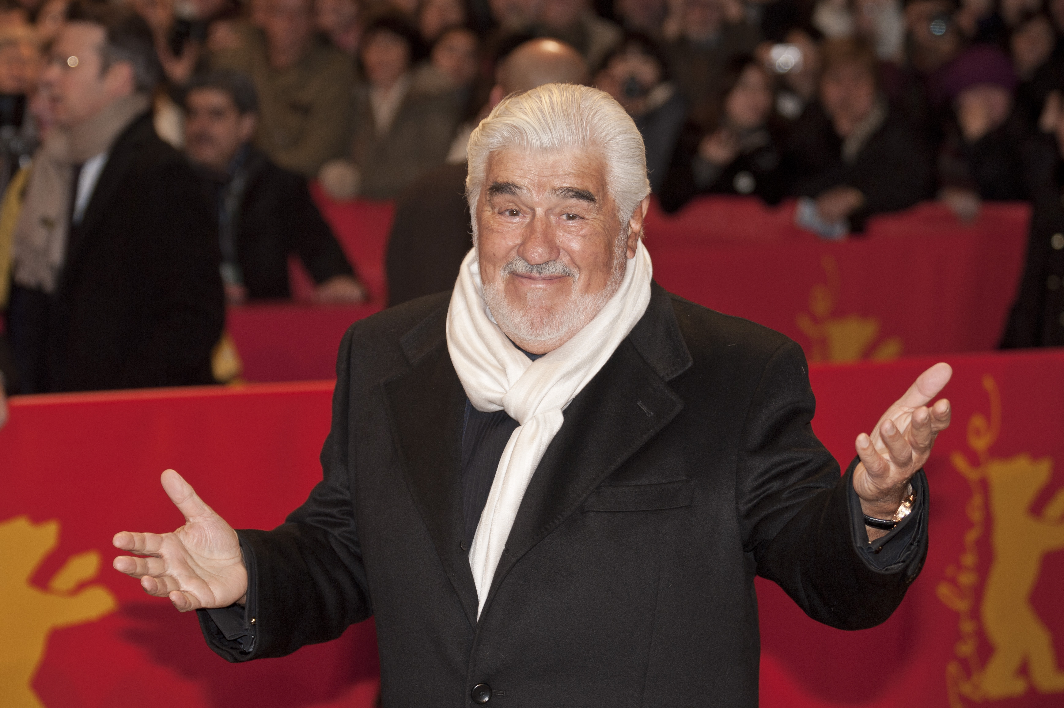 German actor Mario Adorf arriving at the premiere of True Grit at the Berlin Film Festival 2011